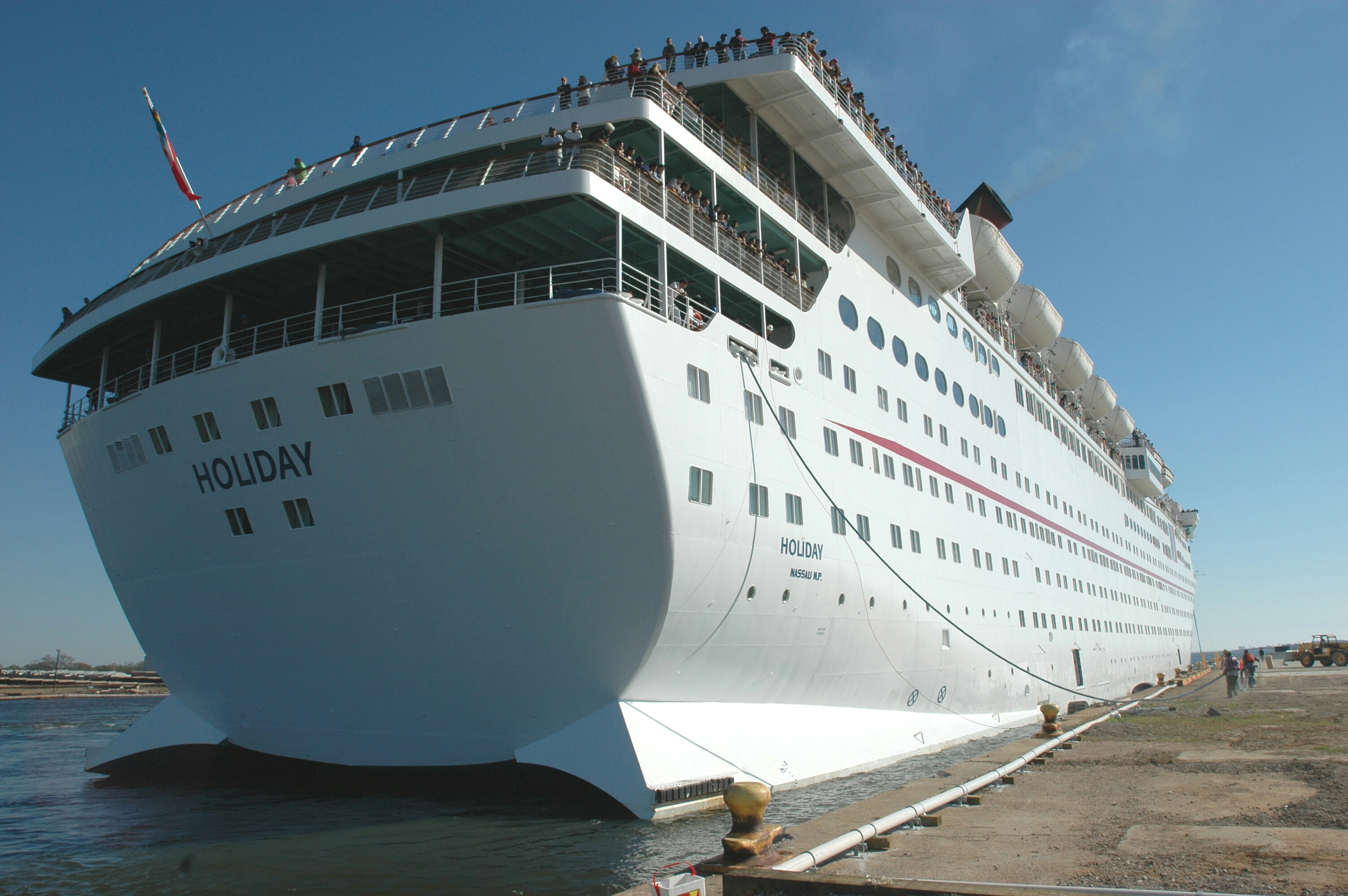 Pascagoula, Miss., October 29, 2005 -- The Carnival cruise ship Holiday docks in Pascagoula, Miss. after sailing from Mobile, Ala. today. The ship is being used to temporarily house Mississippi residents displaced by Hurricane Katrina. FEMA/Mark Wolfe